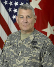 Major General Carter F. Ham, US Army, Commanding General, 1. Infantry Division.